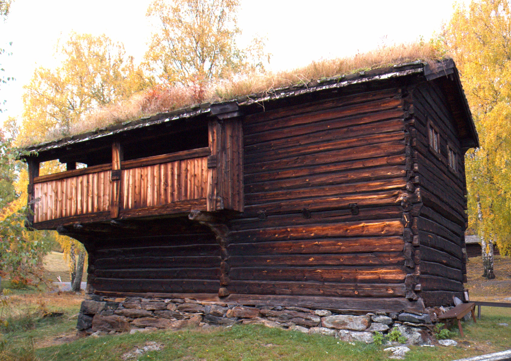 Handeloftet from the farm Hande in Vestre Slidre. The first building at Valdres Folkemuseum, bought from Hande in vestre Slidre 27. december 1905 for the amouth of 1000 kroner. Originaly it was reerected at Valdres Bygdesamling in 1906, and later relocated once more in 1923, this time to where it is now. It is assumed to have been built in the period 1530 - 1640.